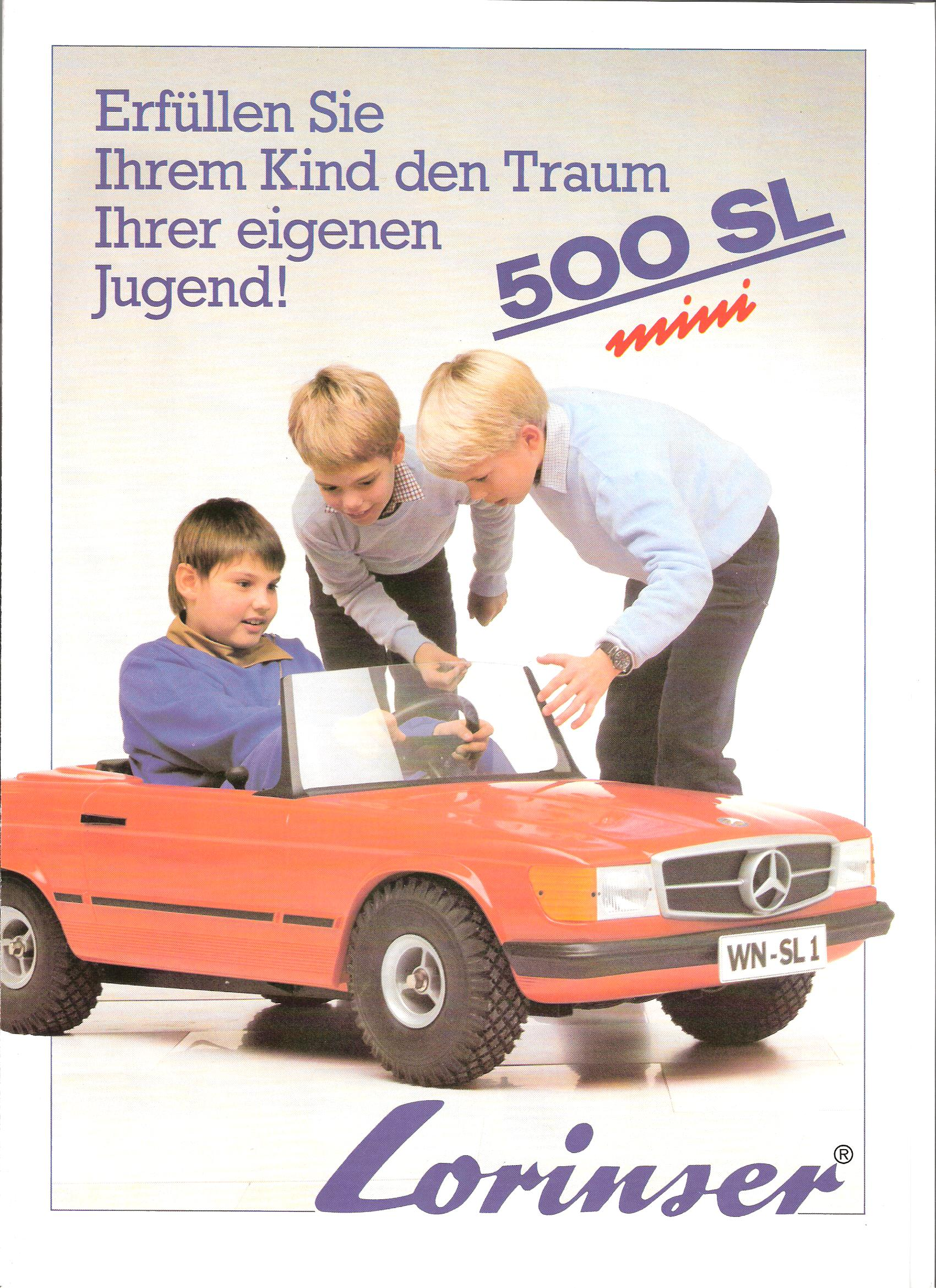 Lorinser Child's Car